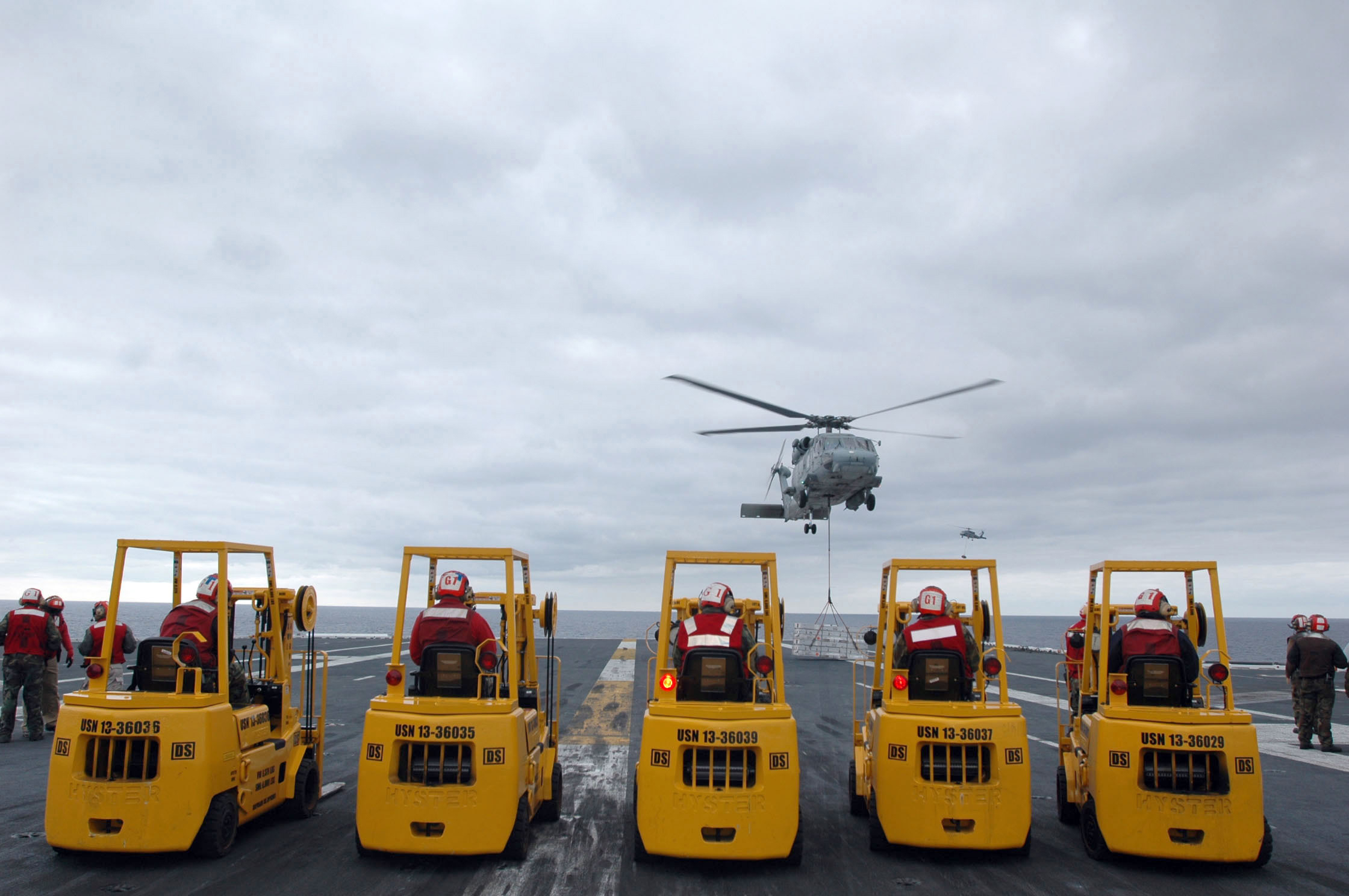 Forklifts prepare to receive cargo from an SH-60F Seahawk helicopter during a vertical replenishment onboard the aircraft carrier USS John C. Stennis (CVN 74) as the ship operates in the Pacific Ocean on April 25, 2006. Stennis is conducting carrier qualifications off the coast of Southern California.